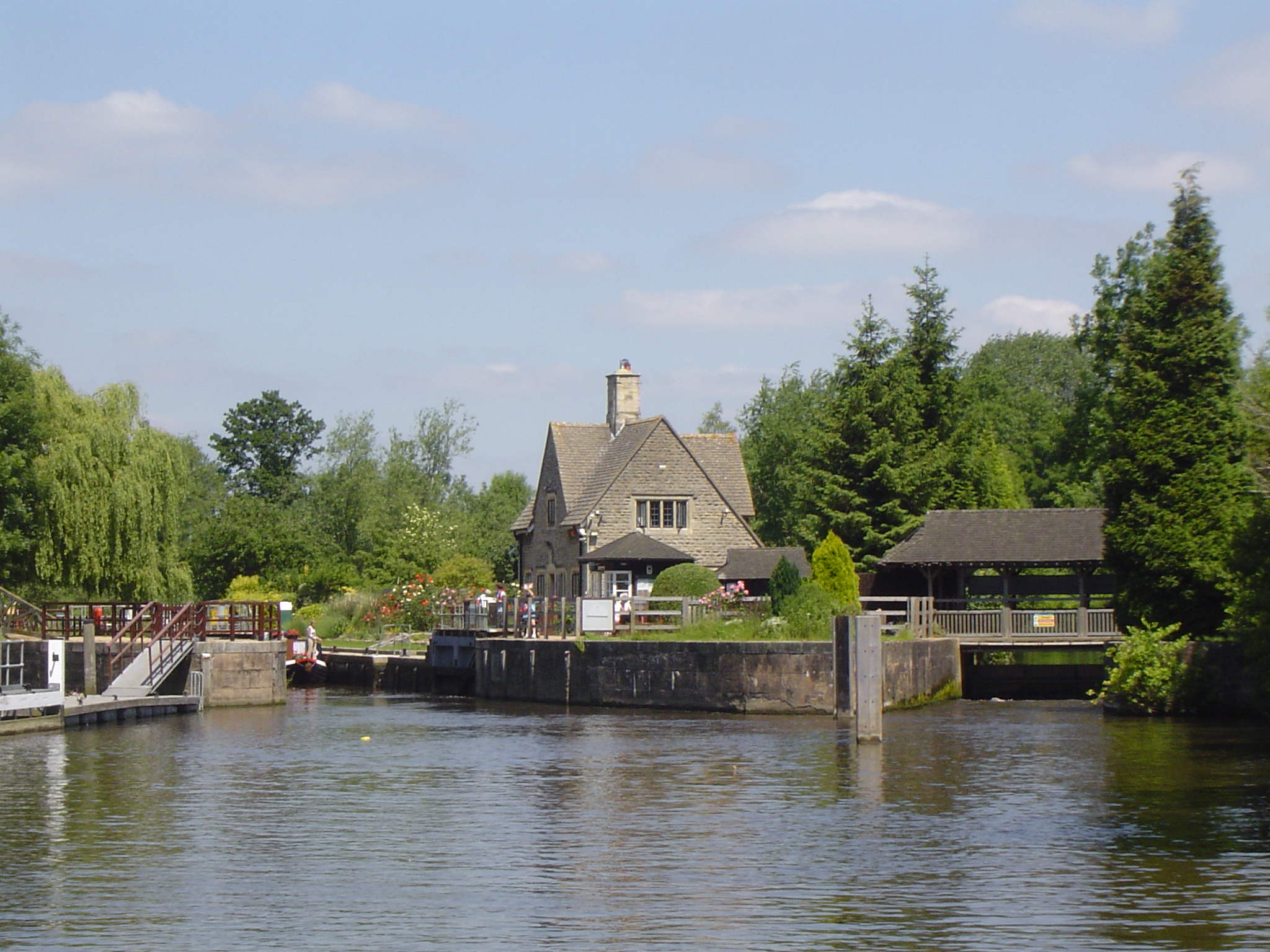 Iffley Lock complex River Thames from downstream